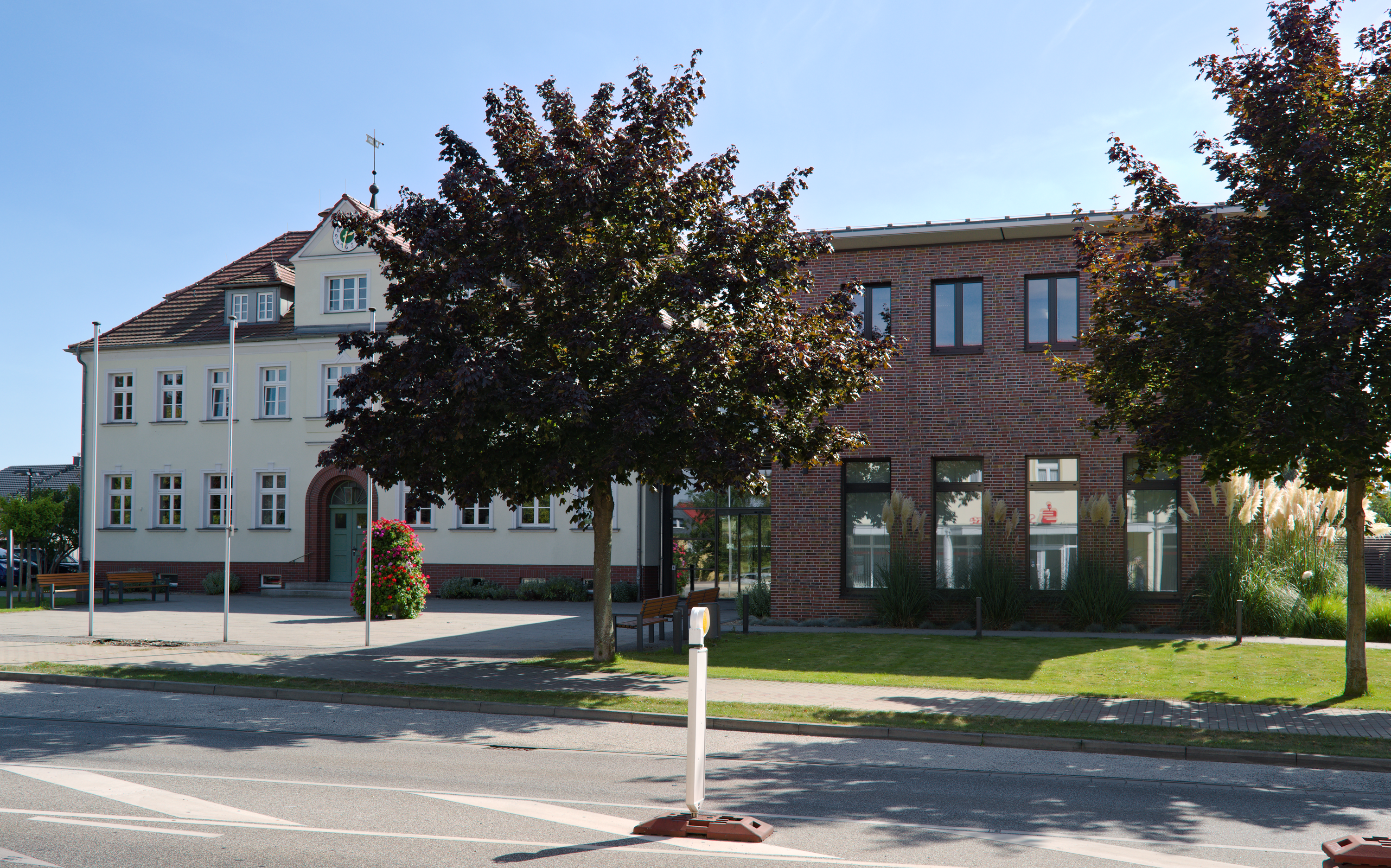 Town hall of Gemeinde Kolkwitz, Berliner Straße 19.